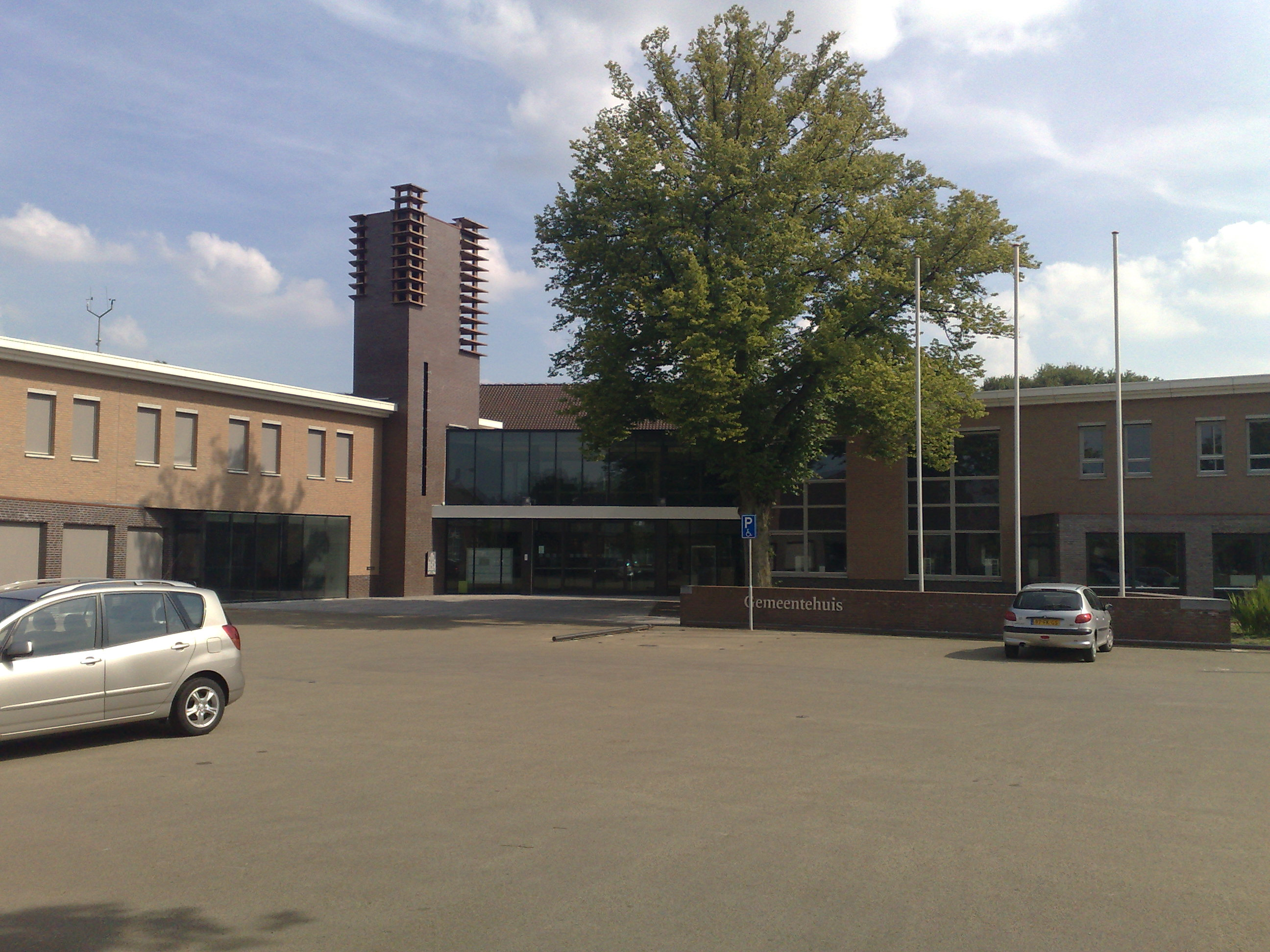 Townhall Eersel, North Brabant, the Netherlands